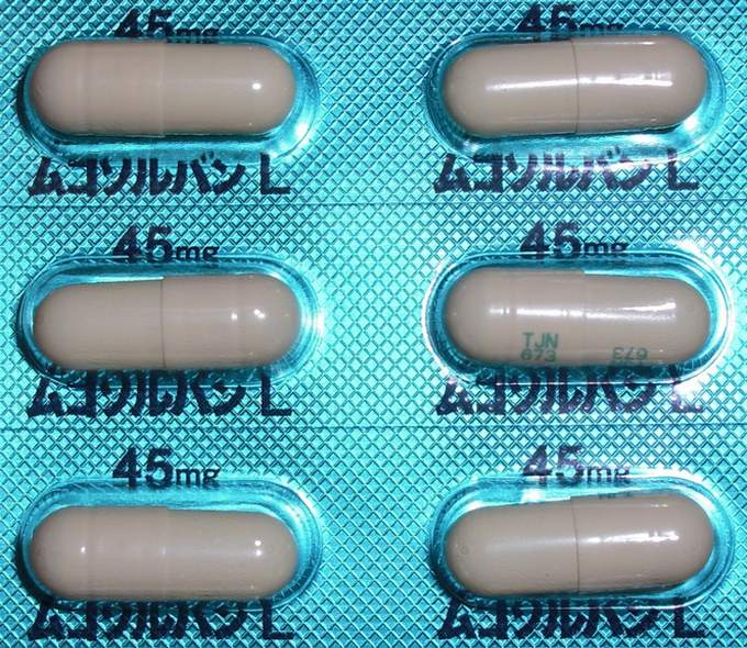 Mucosolvan (Ambroxol) 45mg capsules